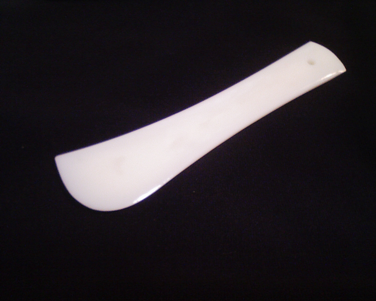 a hera,Japanese traditional sewing equipment